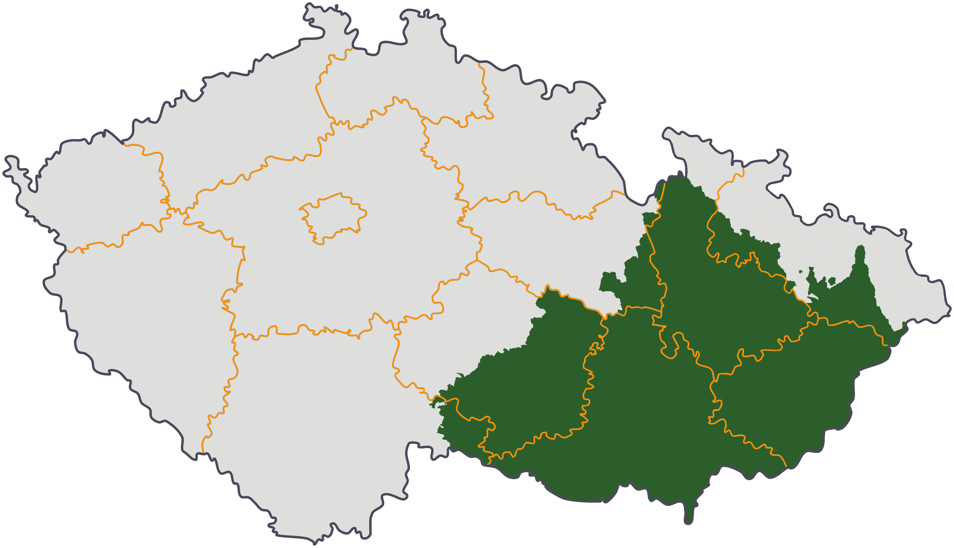 Moravia (in green) and Moravian enclaves in Silesia (in dark grey) on the map of present Czech republic. "Moravian enclaves in Silesia" were parts of Moravia but from 1783 until 1928 they were governed by Silesian authorities according to Moravian legislation.